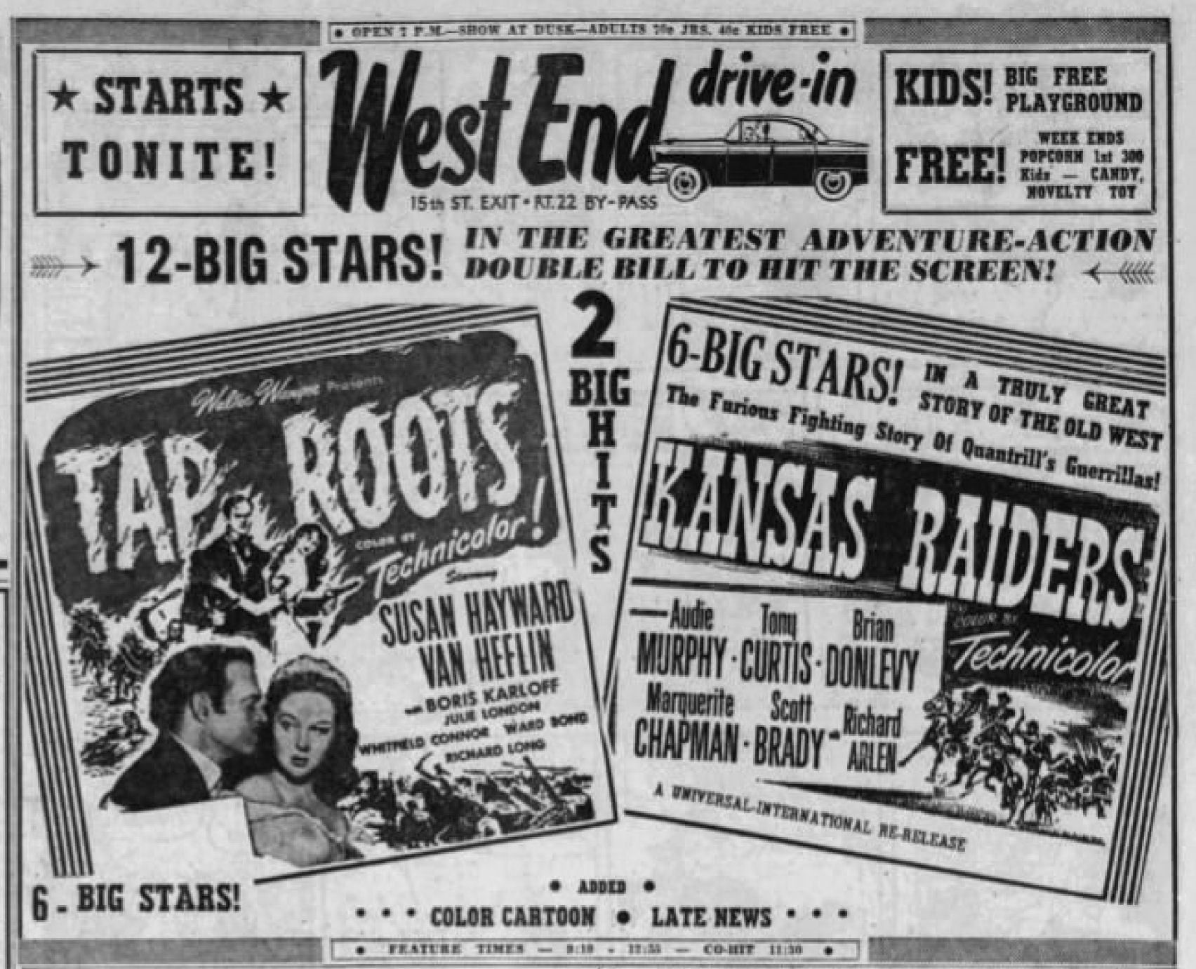 West End Drive-In theater advertisement for the American war films Tap Roots (1948) and Kansas Raiders (1950) - 29 Jun. 1956 Morning Call, Allentown PA